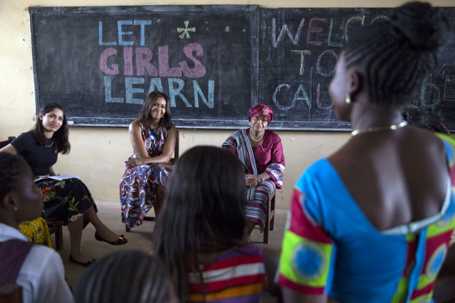 First Lady Michelle Obama participates in a roundtable discussion with Freida Pinto and students, in support of the Let Girls Learn initiative, at R.S. Caulfield Senior High School in Unification Town, Liberia, June 27, 2016. (Official White House Photo by Amanda Lucidon)